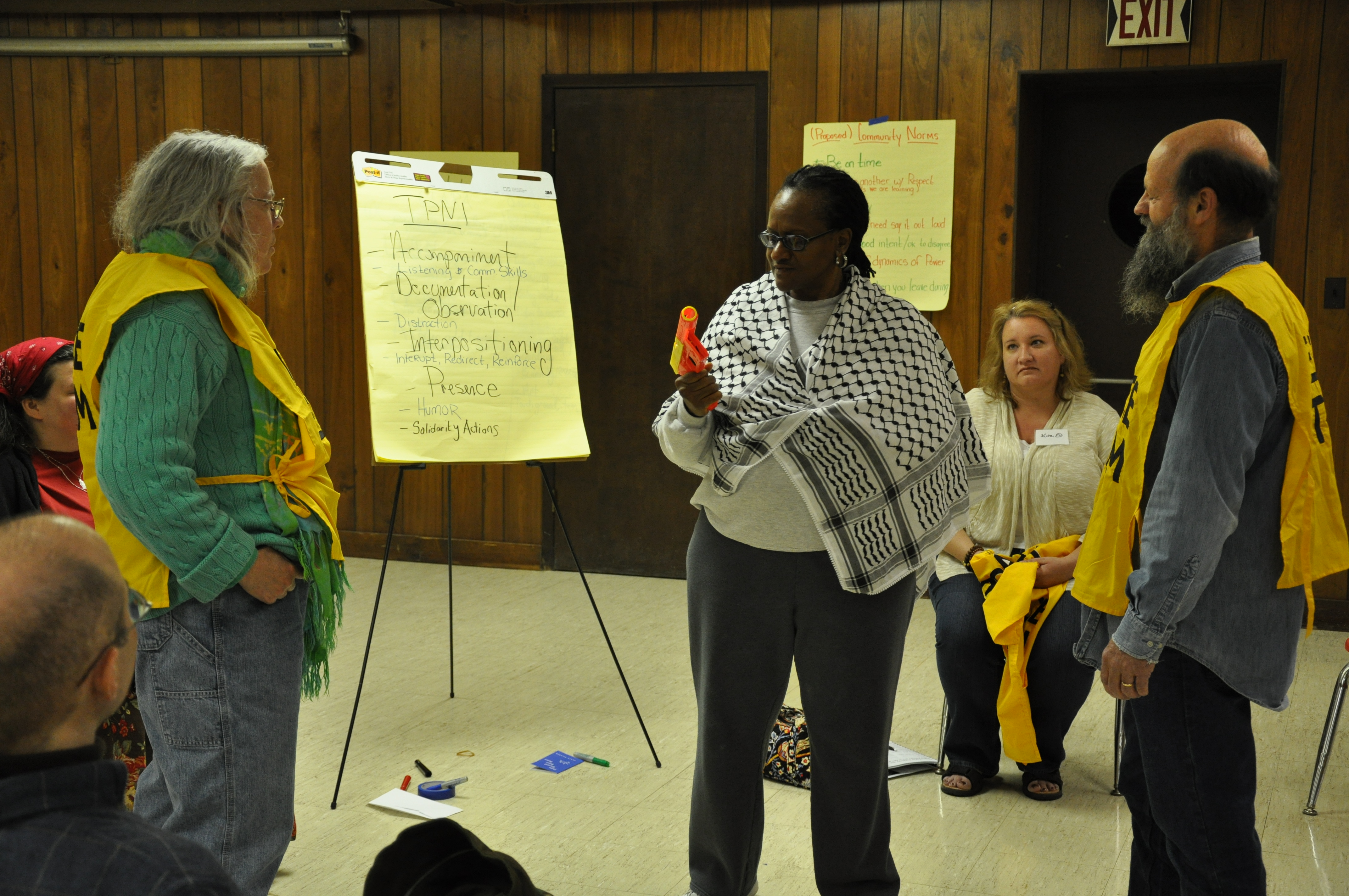 Photo: A woman holds and looks at an orange plastic gun in the center of a room being used for a Michigan Peace Team (now Meta Peace Team) nonviolence skills training. On each side of her is a MPT member in a yellow vest. Other individuals observe those in the center of the room.